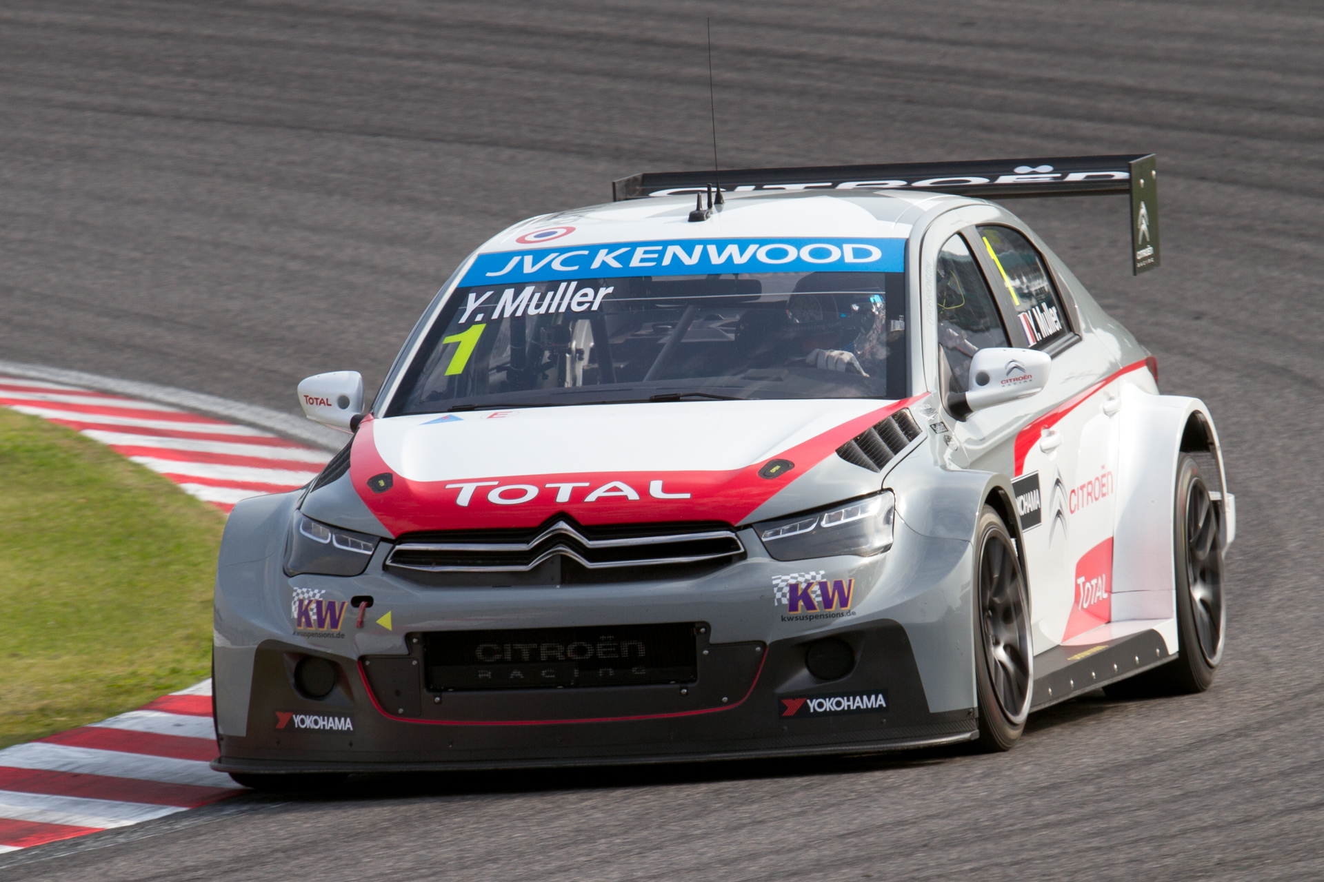 World Touring Car Championship 2014 Race of Japan: Yvan Muller (Citroën)